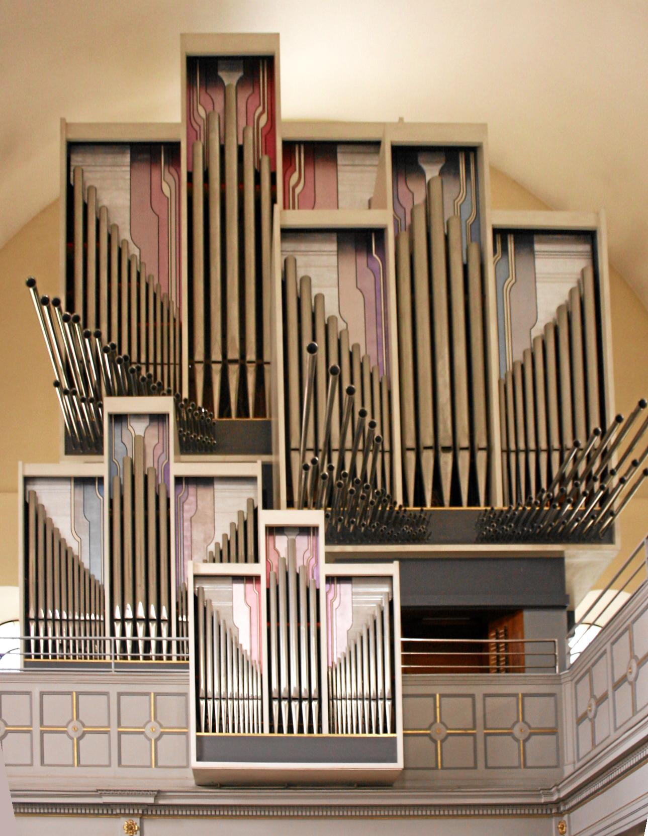 Düsseldorf, Germany. Protestant Neander-church, pipe organ.